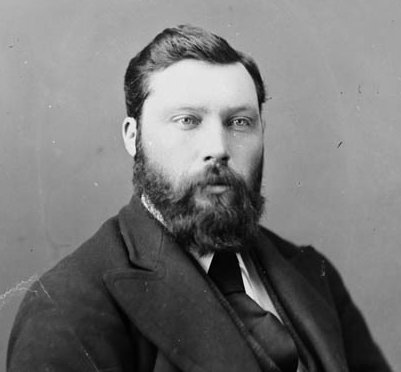 Peter Adolphus McIntyre